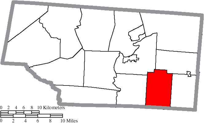 Map of the municipal and township boundaries of Pike County, Ohio, United States, as of the 2000 census, with the location of Union Township highlighted. Township borders are shown only in unincorporated areas in order to differentiate incorporated and unincorporated areas more clearly.